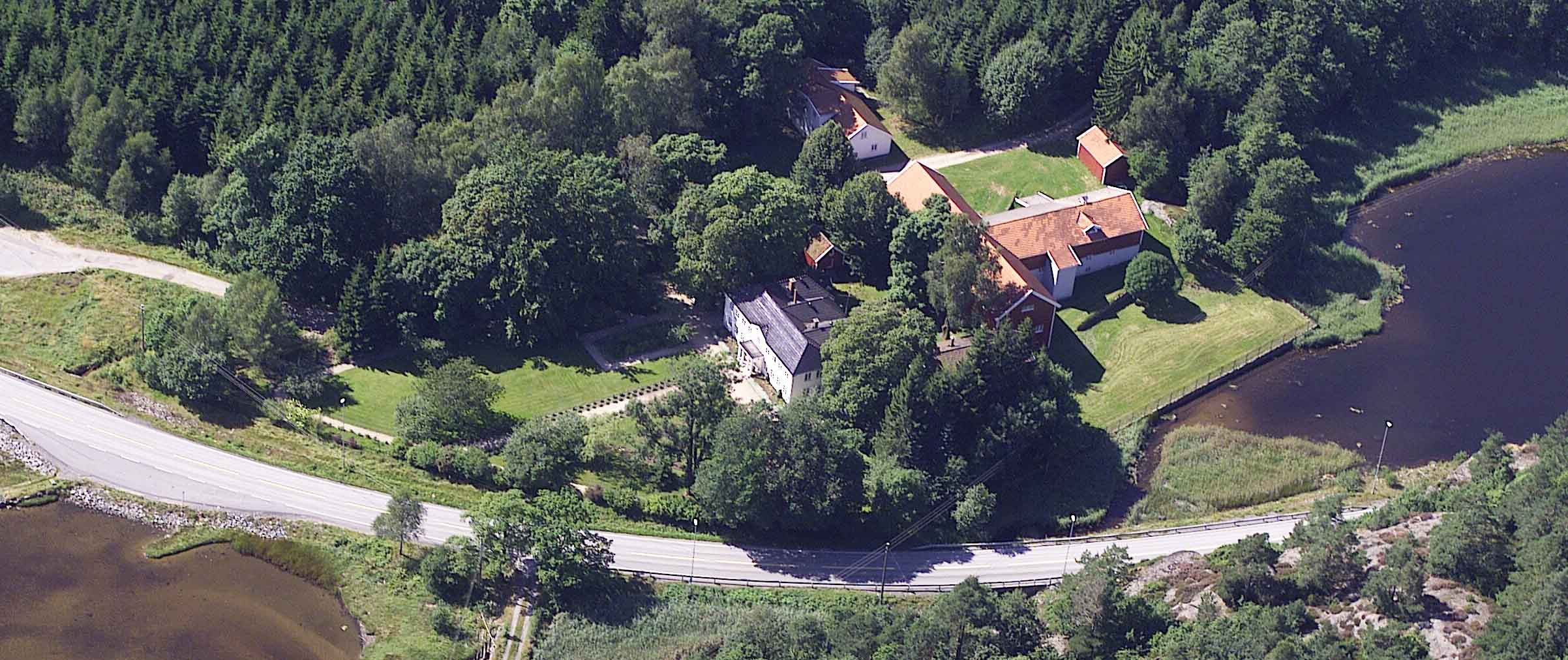 Knut Hamsun's farm Nørholm, houses.